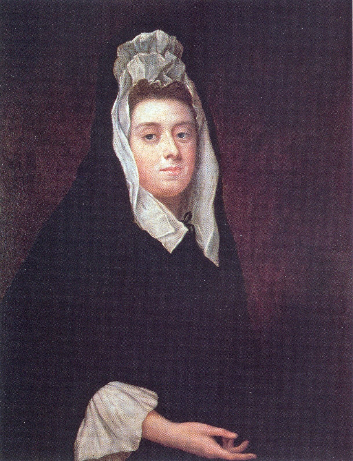 Painting of Mary, Lady Grosvenor